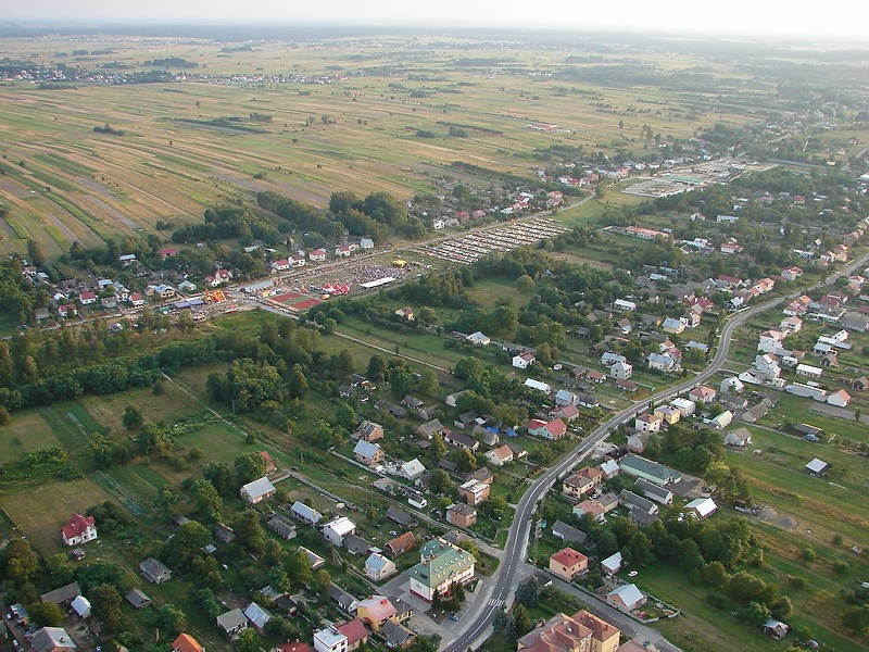 Panorama Jeżowego